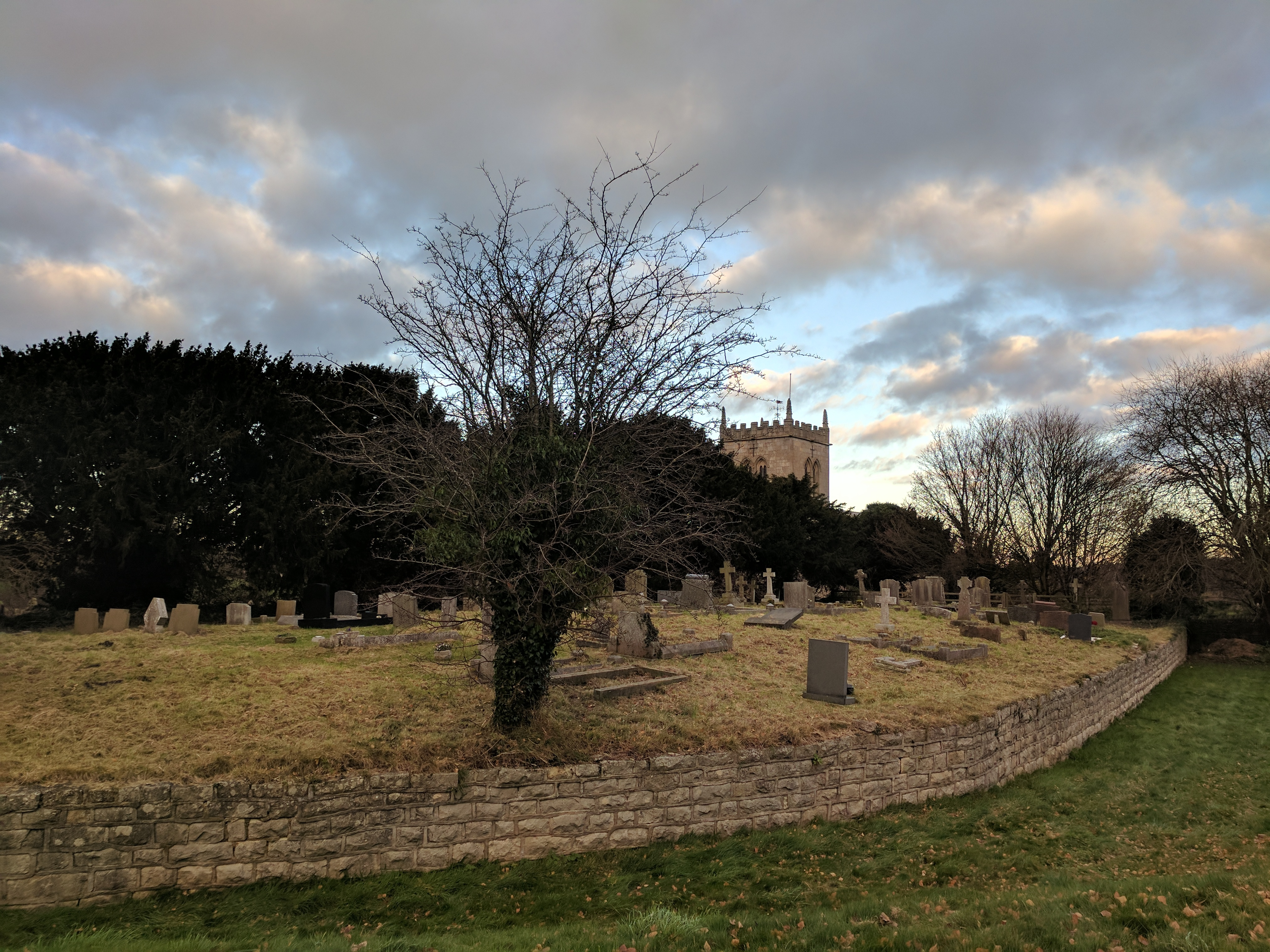 Cuckney motte and bailey castle, Norton Road, Cuckney, At the very extremity of the churchyard of St Mary's Church. Access via the gate in the grounds of Cuckney Village Hall Wikidata has entry Q17650136 with data related to this item.